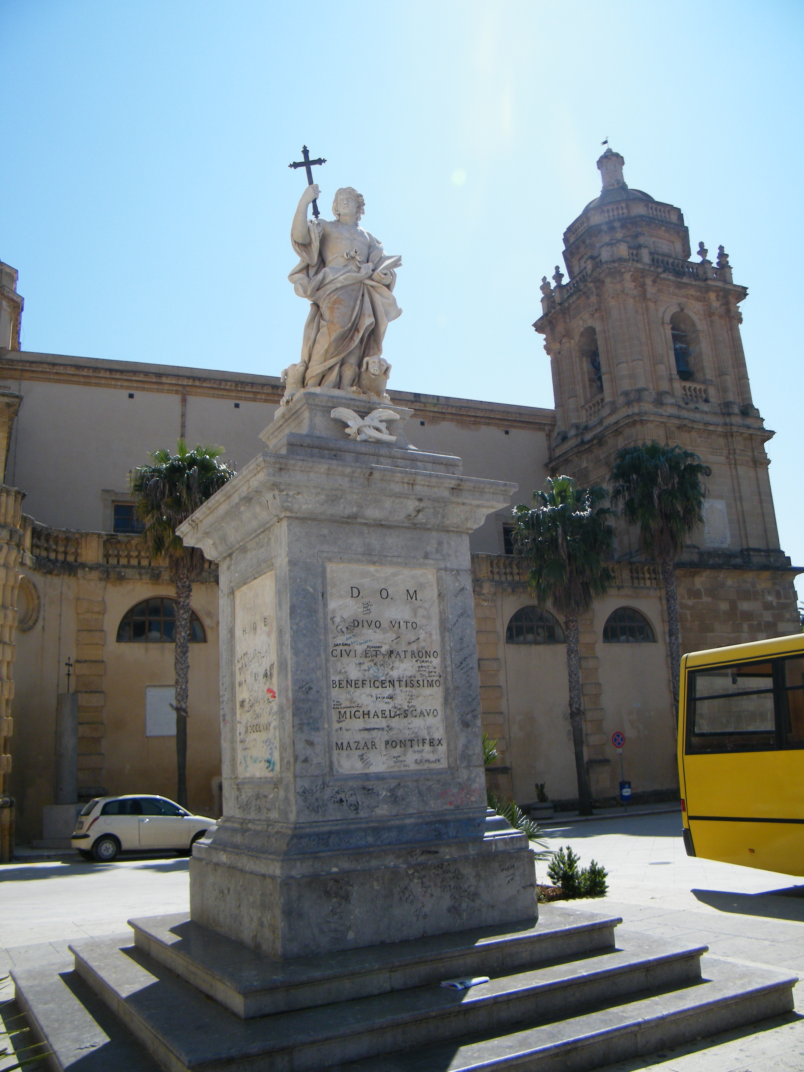 Statue of Vitus - Mazara